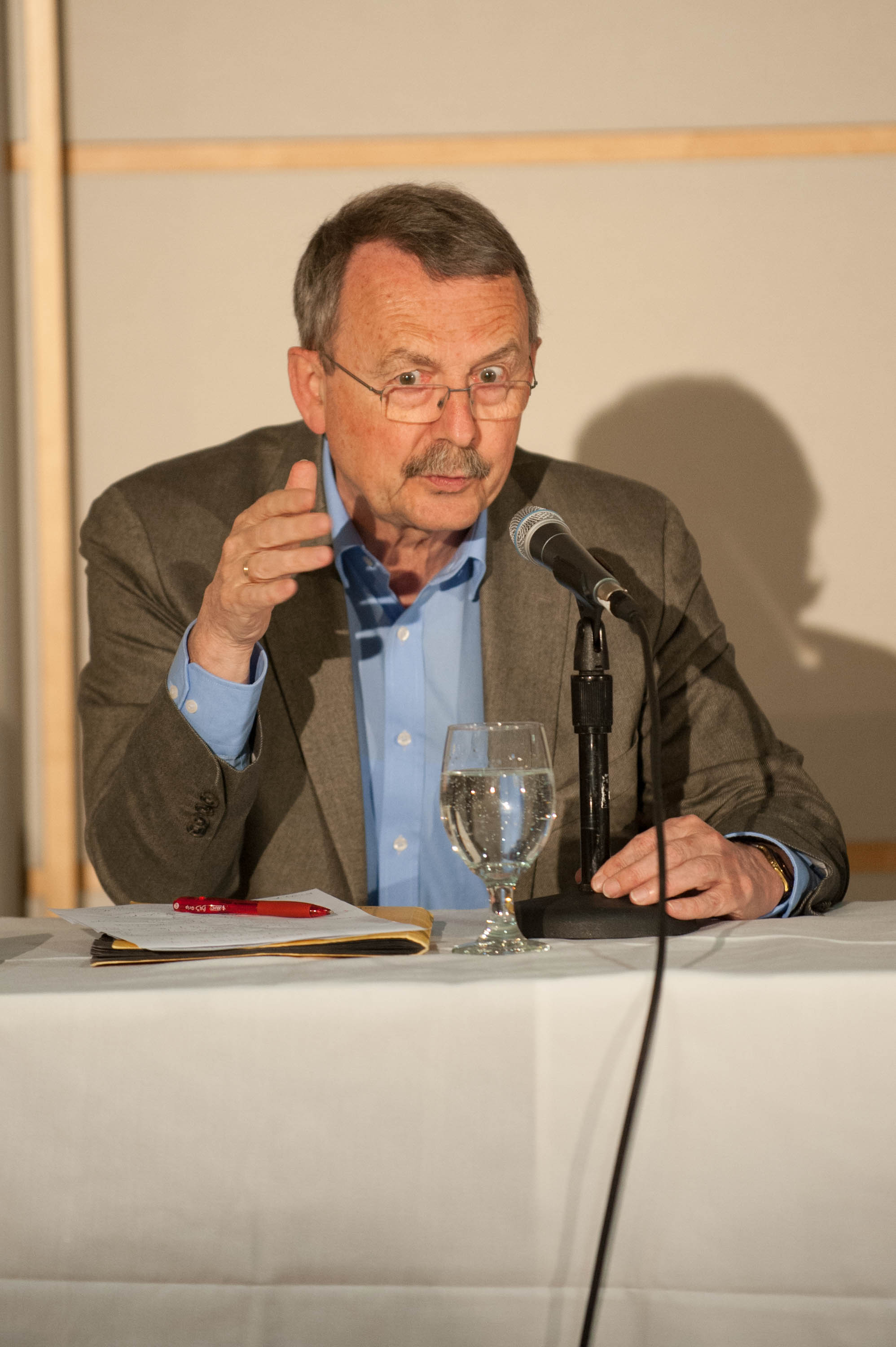 How Will Capitalism End: Reflections on a Failing System - A Lecture by Wolfgang Streeck. Tuesday, April 4, 2017.